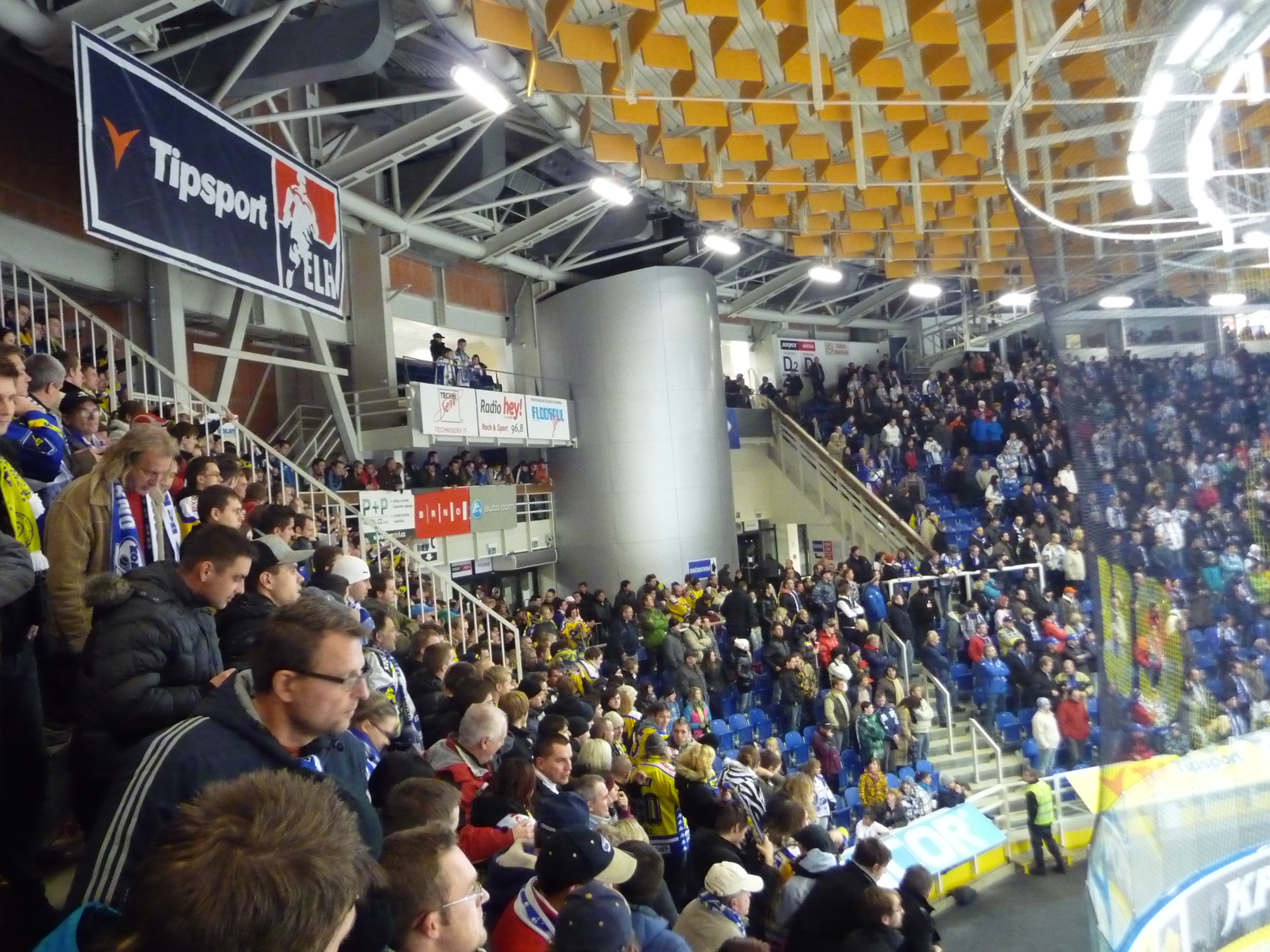 HC Kometa Brno v PSG Zlín, fans -10-5-3-2◄►+2+3+5+10